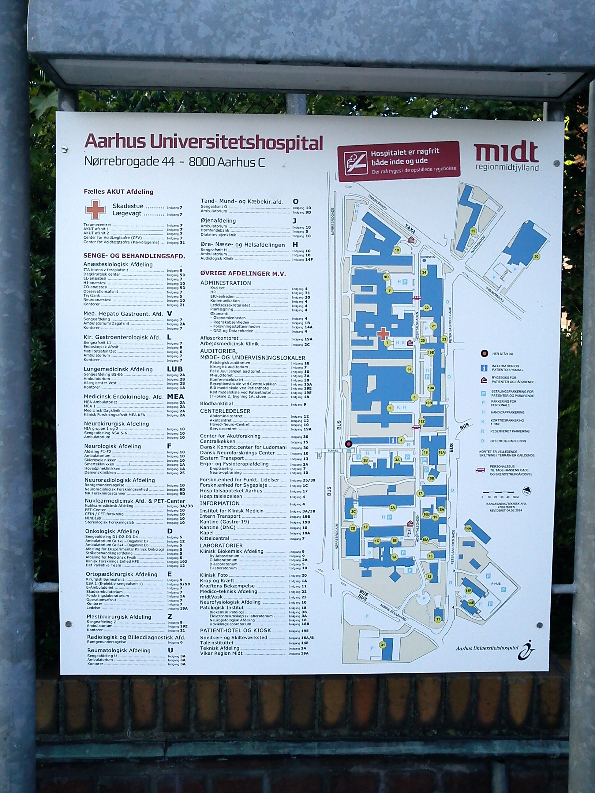 Århus Kommunehospital